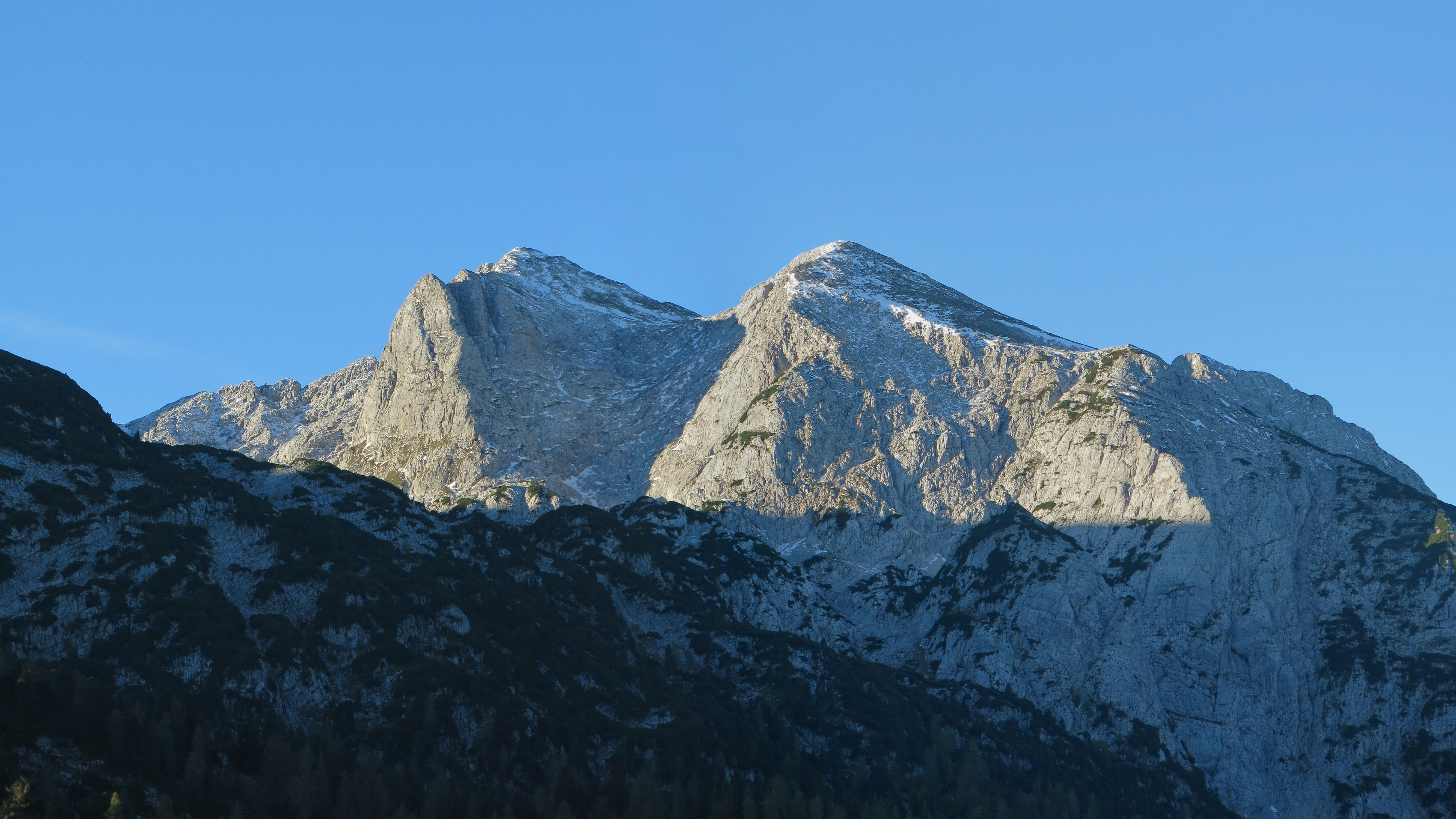 Looking from the New Traunstein Hut soutward to the two Häuselhorn mountains.